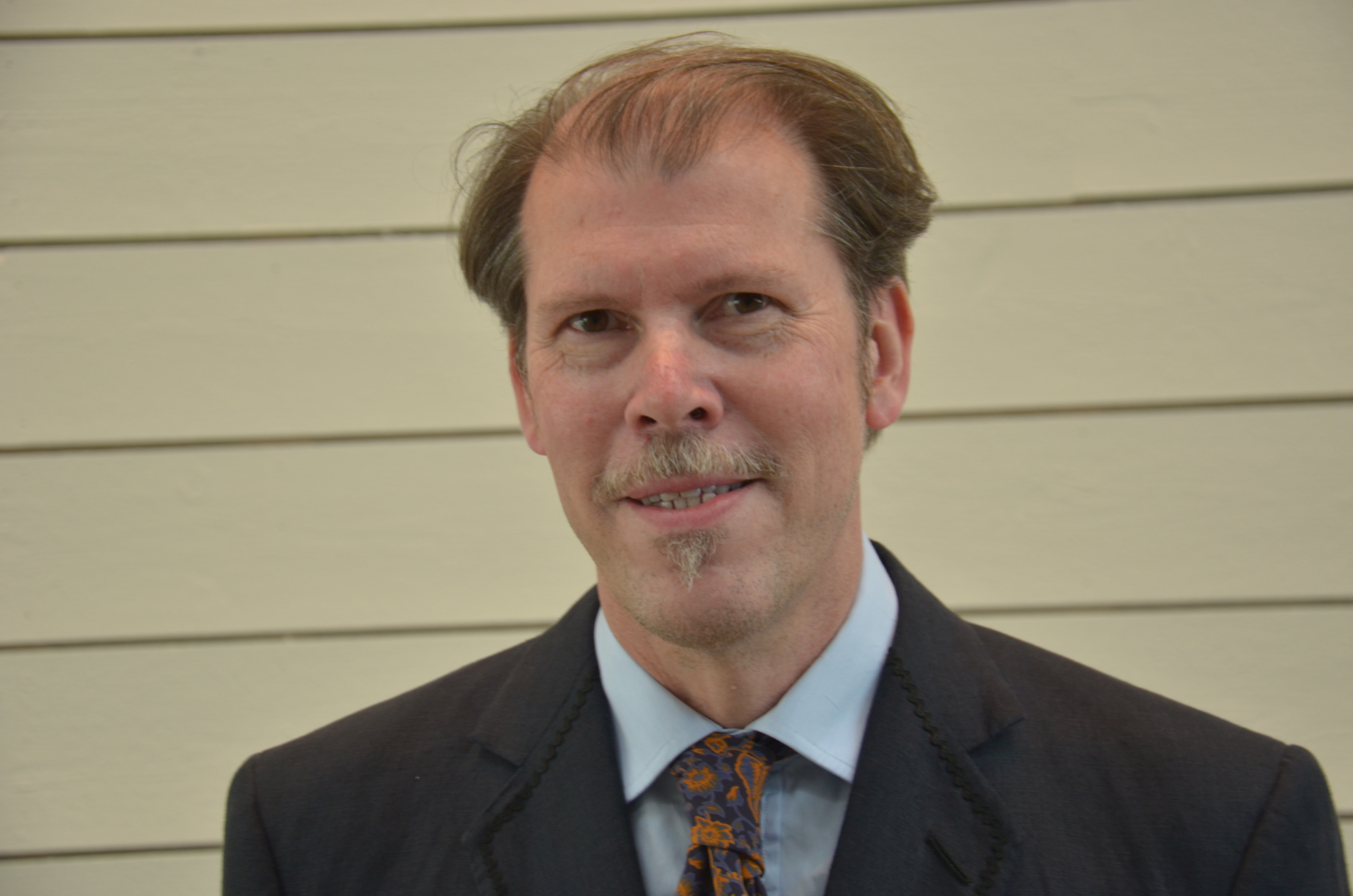 Lars Nilsson, Swedish artist. Photo taken at Artipilag, Gustavsberg June 30, 2012